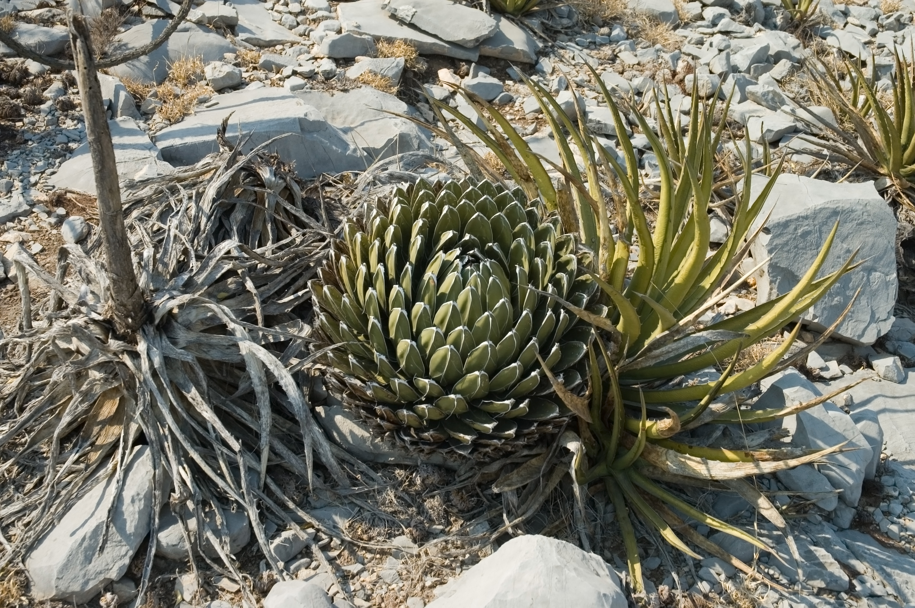 Agave victoriae-reginae growing next to lechuguilla (Agave lechuguilla), Parque Nacional Cumbres de Monterrey (Summits of Monterrey National Park), Nuevo León, Mexico